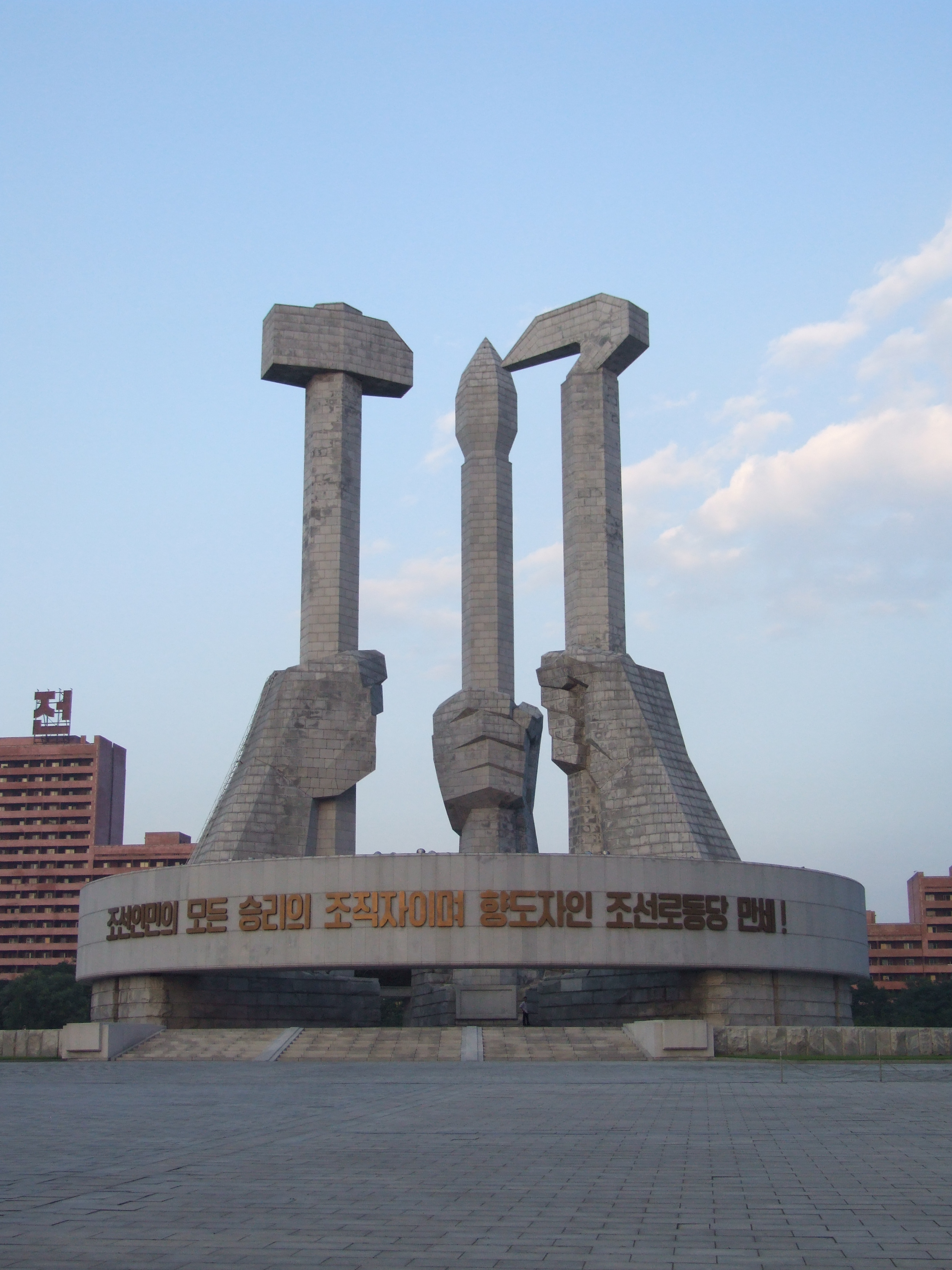 Monument to the Founding of the Worker's Party 01